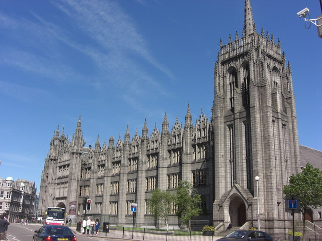 Marischal College, Aberdeen In the process of being converted to Aberdeen City Council's new HQ.